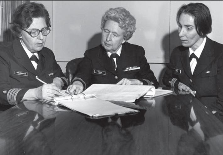 RADM Maxine Conder, Director of the Nurse Corps, meets with future Directors CAPT (later RMDL) Mary Nielubowicz (left) and LCDR (later RADM) Joan Engel.